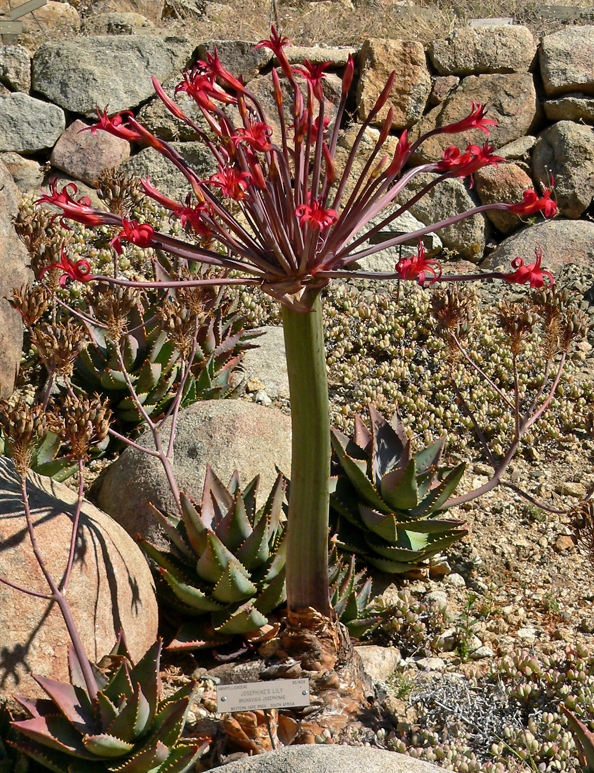 Brunsvigia josephinae at the University of California Botanical Garden, Berkeley, California